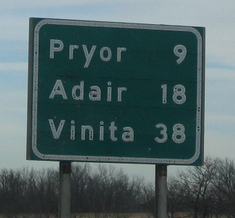 Signage along northbound U.S. Route 69, nine miles south of Pryor, Oklahoma.